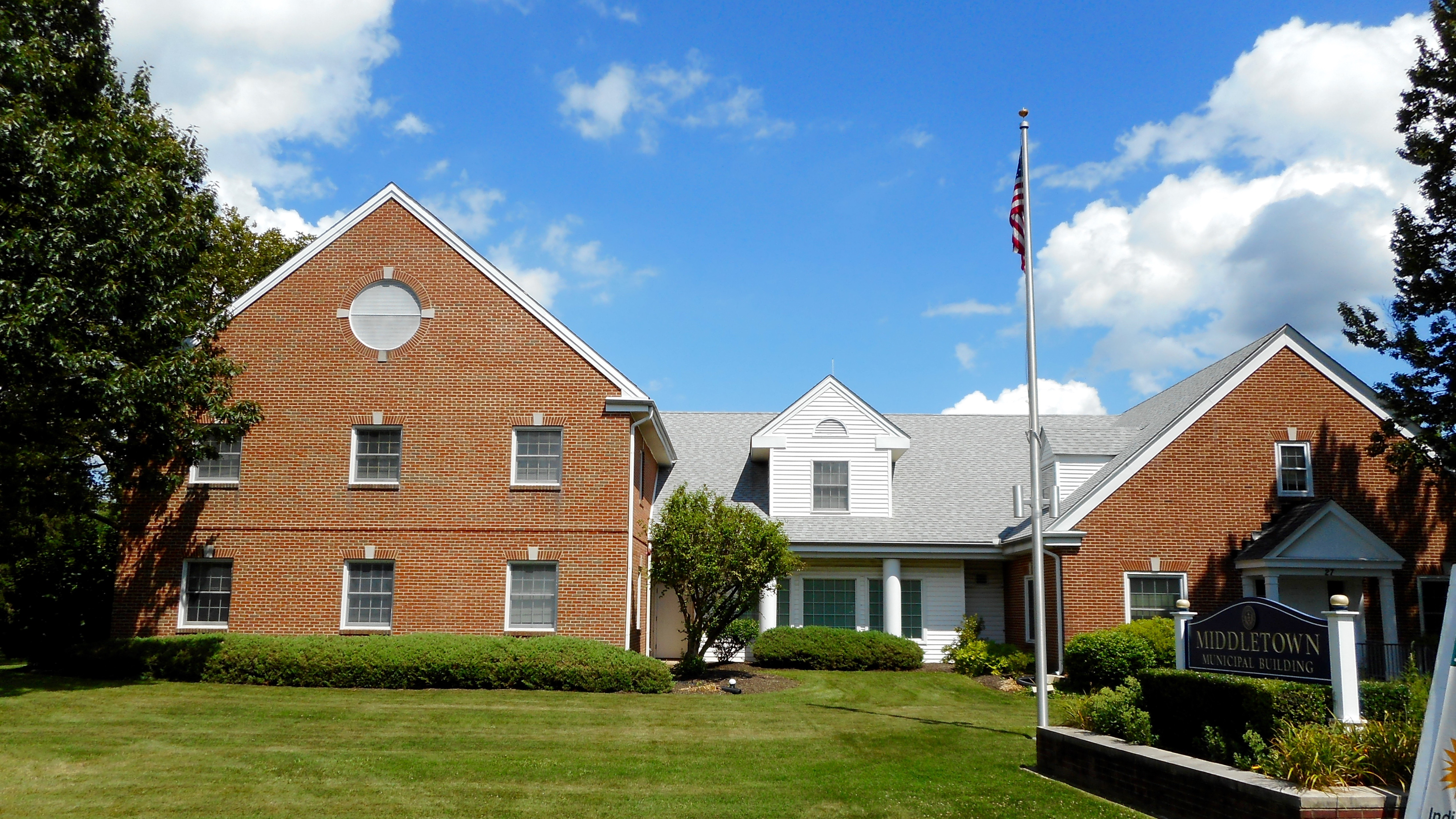 The municipal building in Middletown Township, Delaware County, Pennsylvania